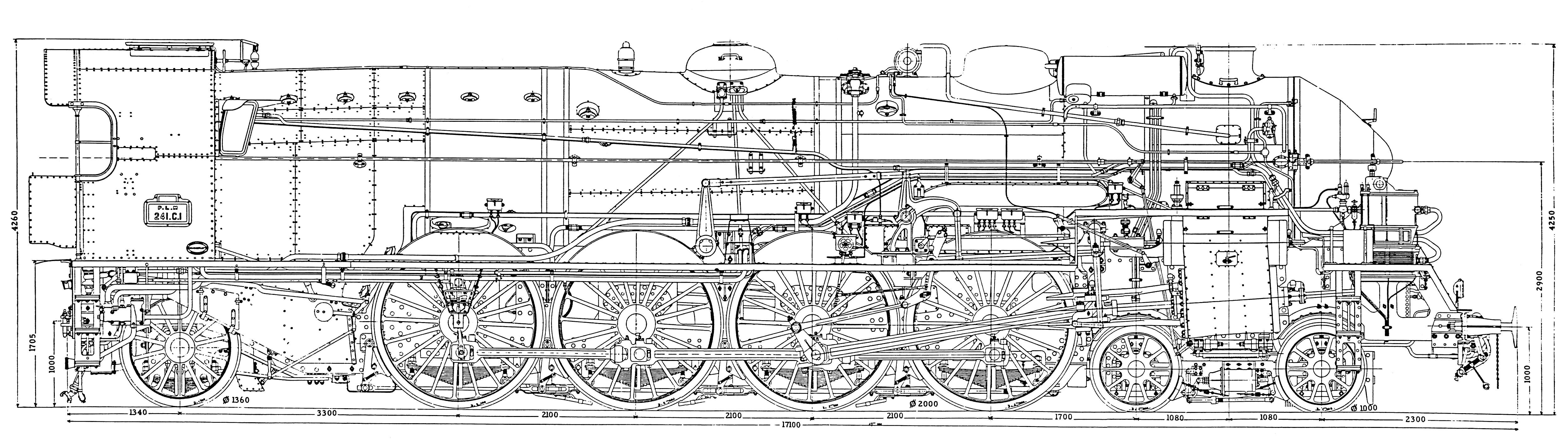 Drawing of locomotive PLM 241 C 1 in 1932.